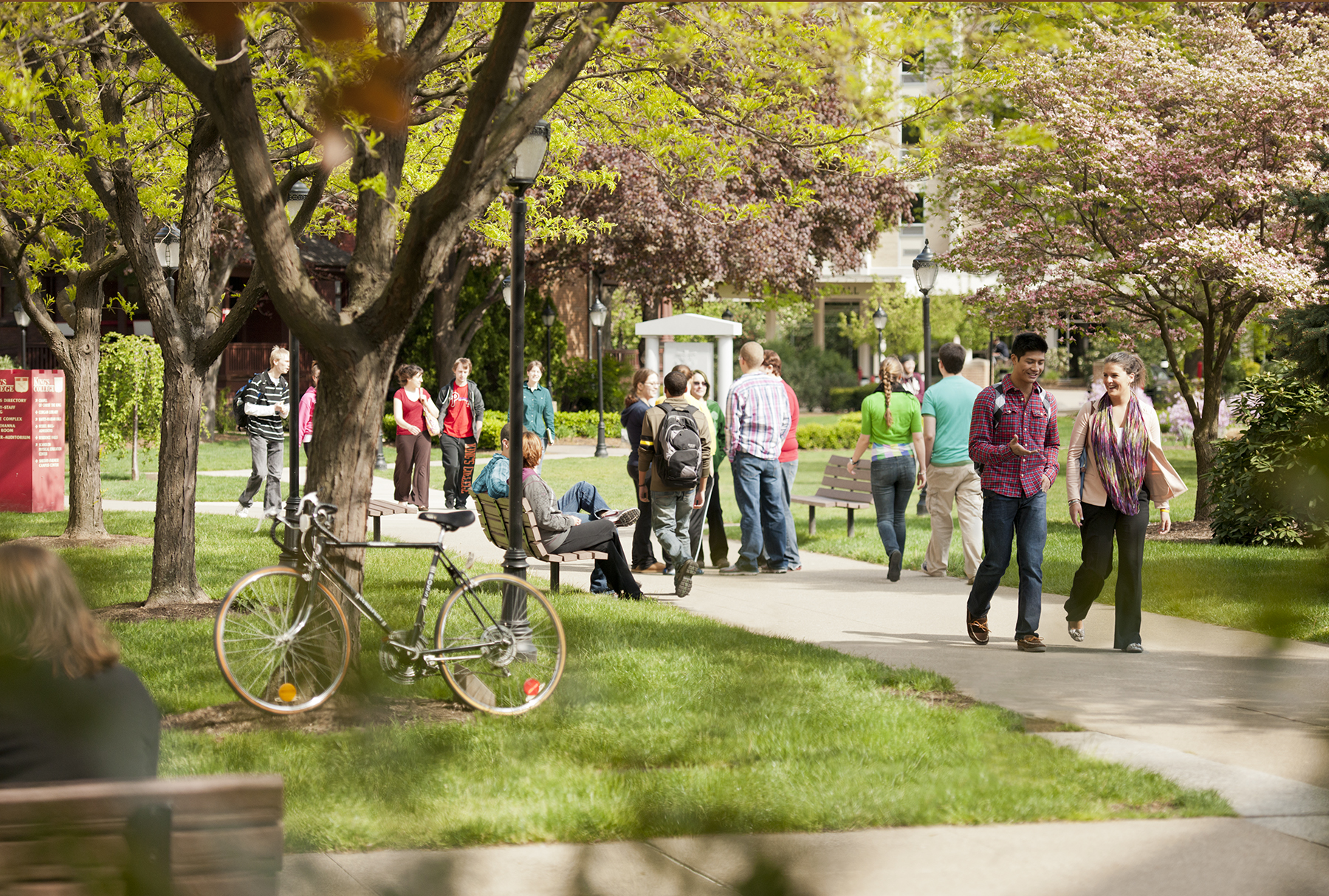 King's College campus